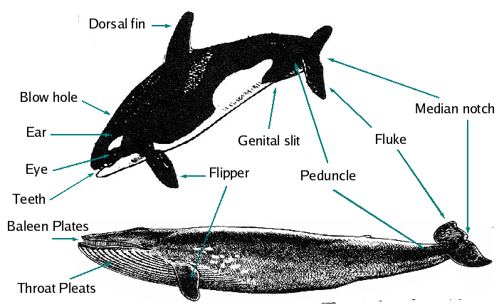 Diagram illustrating various body parts of two basic types of Cetacea. Created using image:Cetacea.jpg as the base image, and editing with the Gimp and OpenOffice.